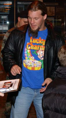 Cropped from Wikipedia Commons image File:Chris Jericho.jpg